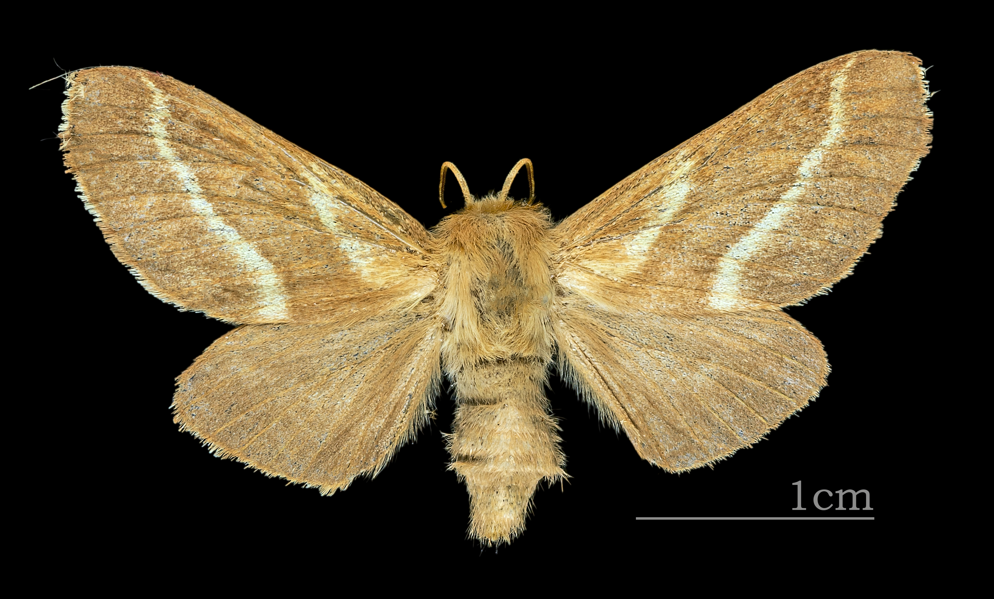 Ground Lackey - Dorsal side